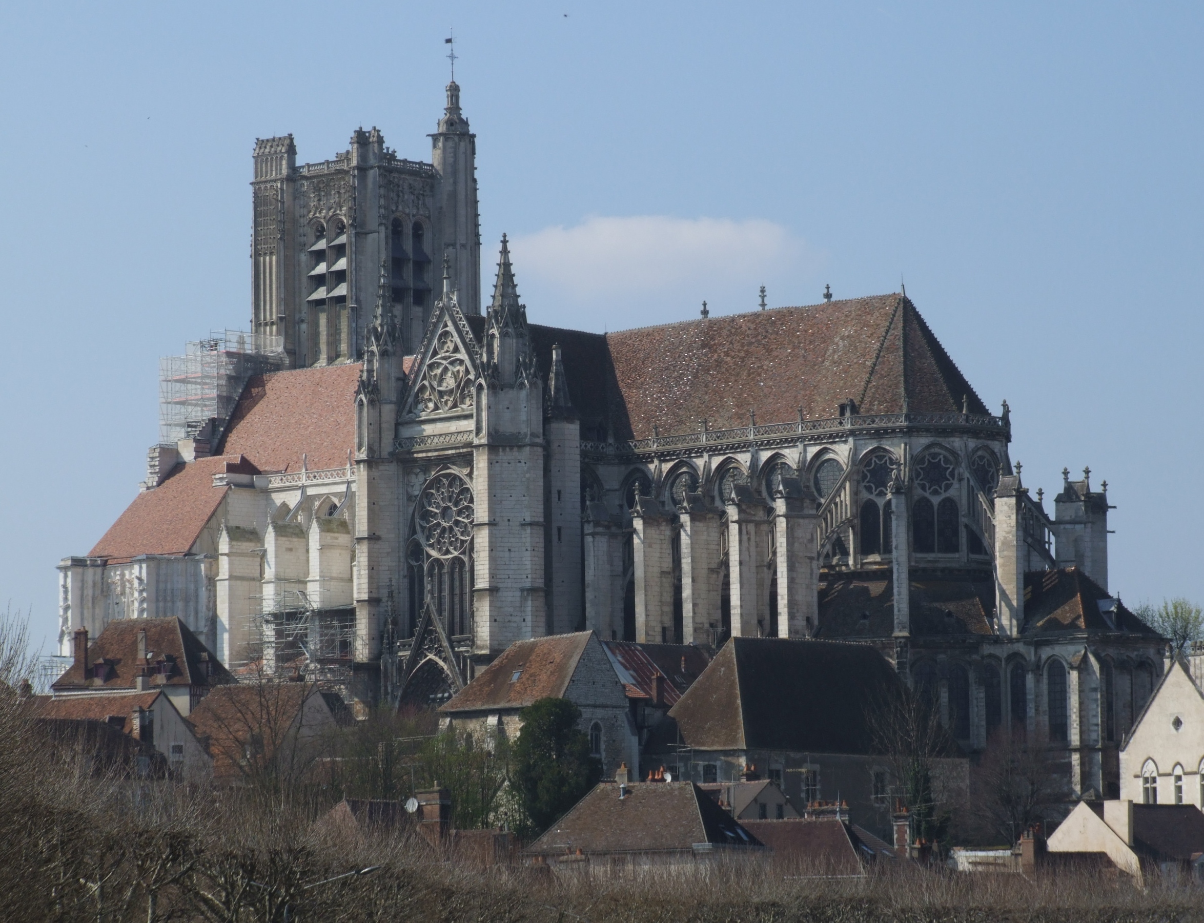 Saint-Etienne Cathedral, Auxerre, Burgundy, FRANCE